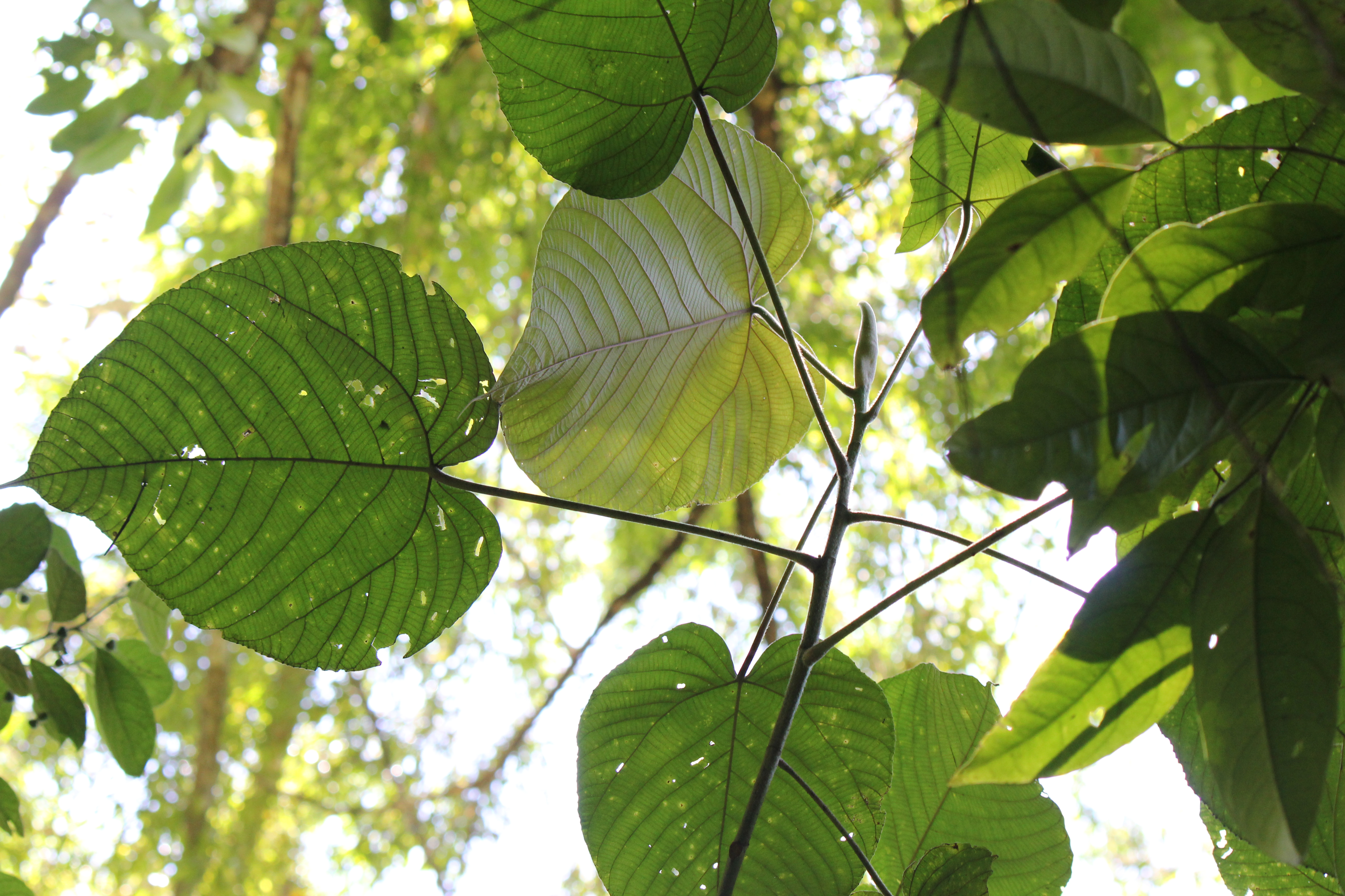 Macaranga hispida at Mount Masarang, North SulawesiBahasa Indonesia: Macaranga hispida di Gunung Masarang, Sulawesi Utara